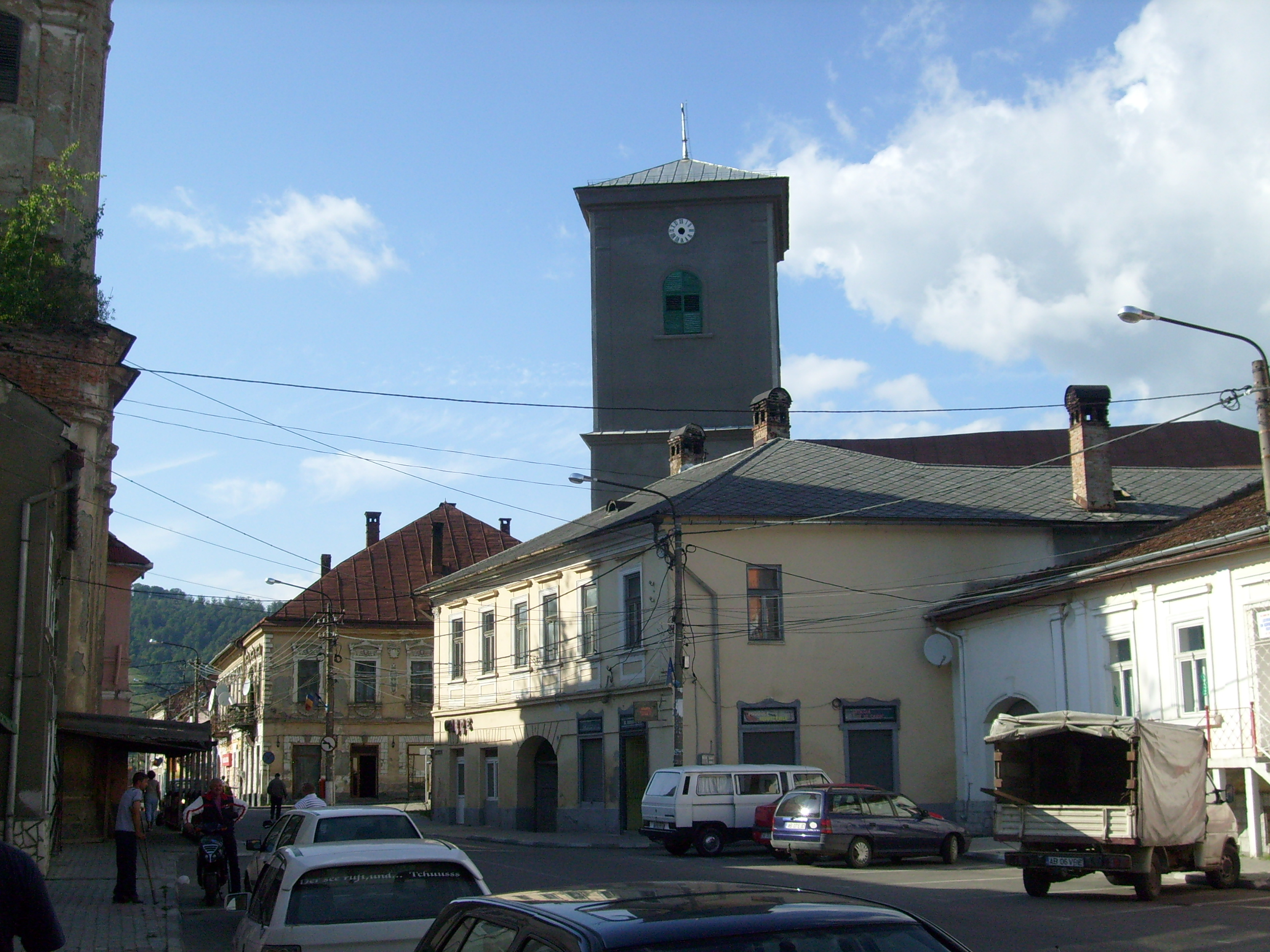 Roman Catholic Church in Abrud.